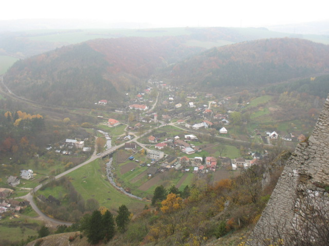 Village Višnové, photo taken from Castle of Čachtice